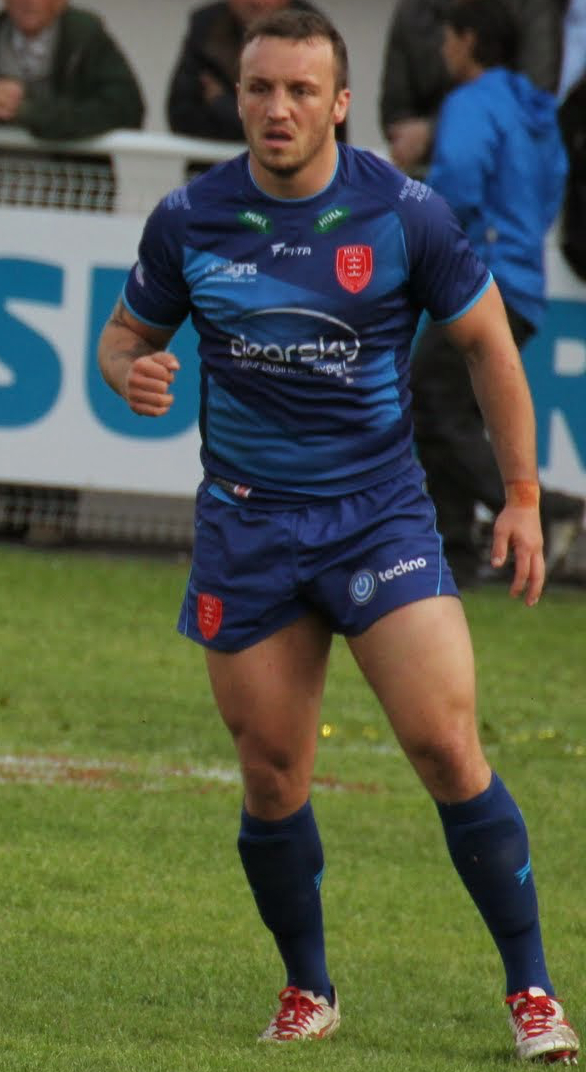 Josh Hodgson